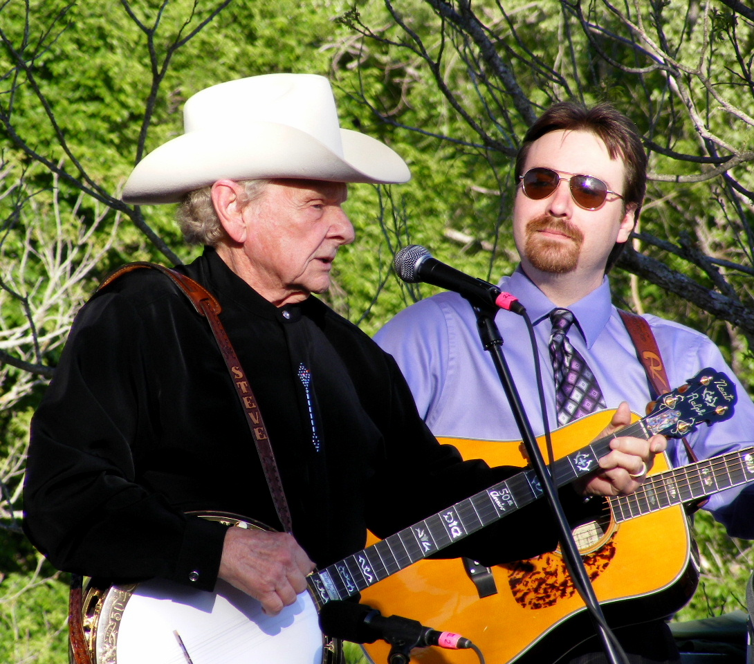 Ralph Stanley and Ralph Stanley II on stage at Old Settler's Music Festival. Photo - Ron Baker (2008).